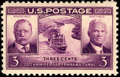 The Panama Canal opening was commemorated on its 25th anniversary with a 3-cent stamp issued on August 15, 1939. The stamp shows a steamship passing through the Gaillard Cut, President Theodore Roosevelt on the left promoted the canal and General George W. Goethals on the right was chief engineer.